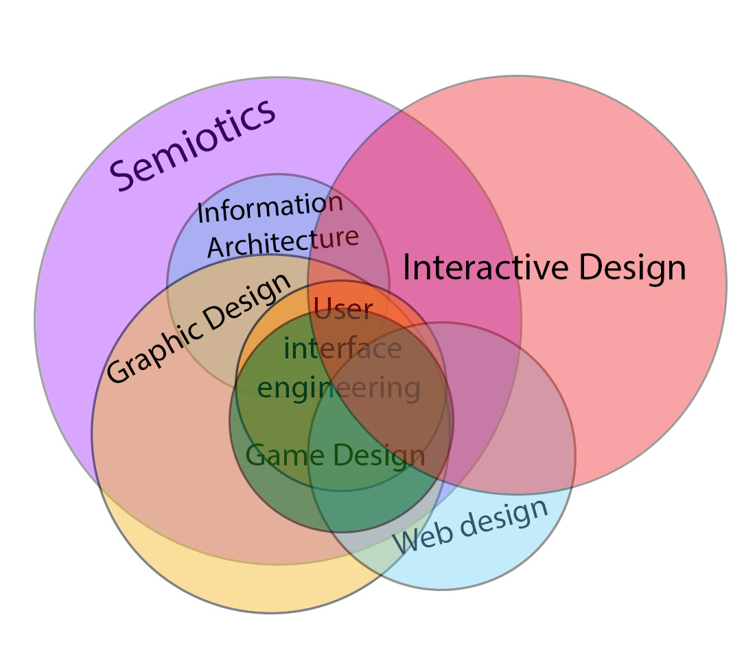 Interactive design in relation to other fields of study